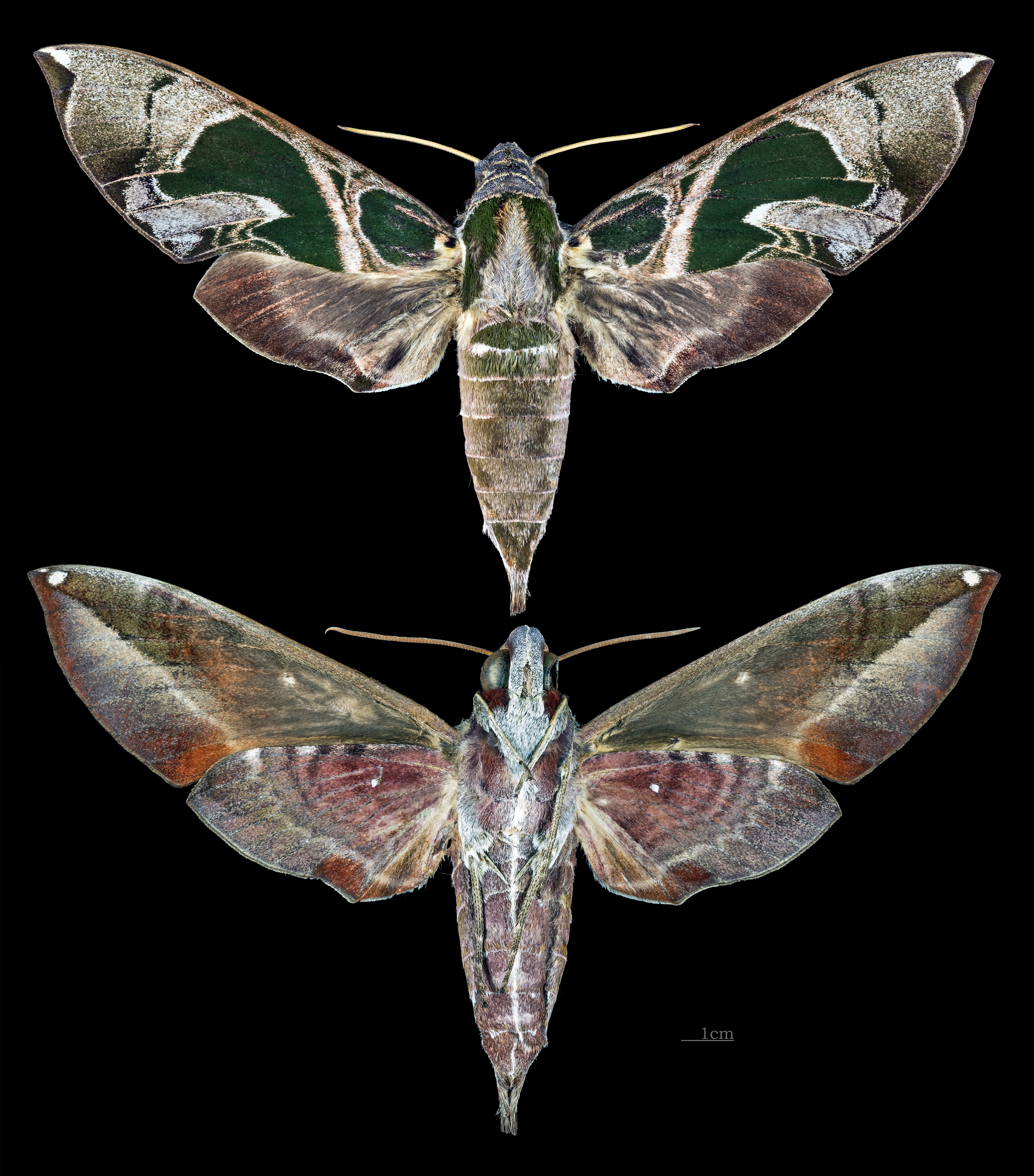 Daphnis hayesi - Two views of same specimen Collection of the Mathematician Laurent Schwartz